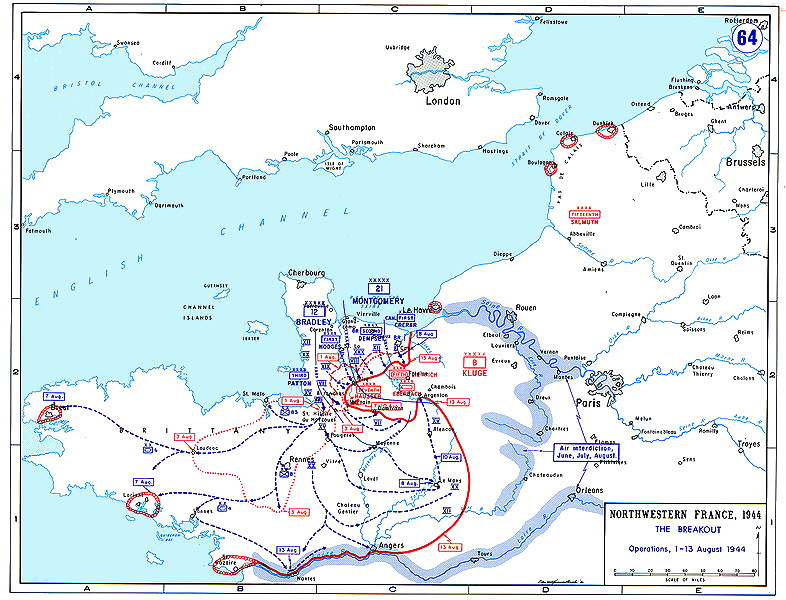 In 1938 the predecessors of what is today The Department of History at the United States Military Academy began developing a series of campaign atlases to aid in teaching cadets a course entitled, "History of the Military Art." Since then, the Department has produced over six atlases and more than one thousand maps, encompassing not only America’s wars but global conflicts as well. In keeping abreast with today's technology, the Department of History is providing these maps on the internet as part of the department's outreach program. The maps were created by the United States Military Academy’s Department of History and are the digital versions from the atlases printed by the United States Defense Printing Agency. We gratefully acknowledge the accomplishments of the department's former cartographer, Mr. Edward J. Krasnoborski, along with the works of our present cartographer, Mr. Frank Martini. Please be aware that these maps are large in file size and may require substantial download times.